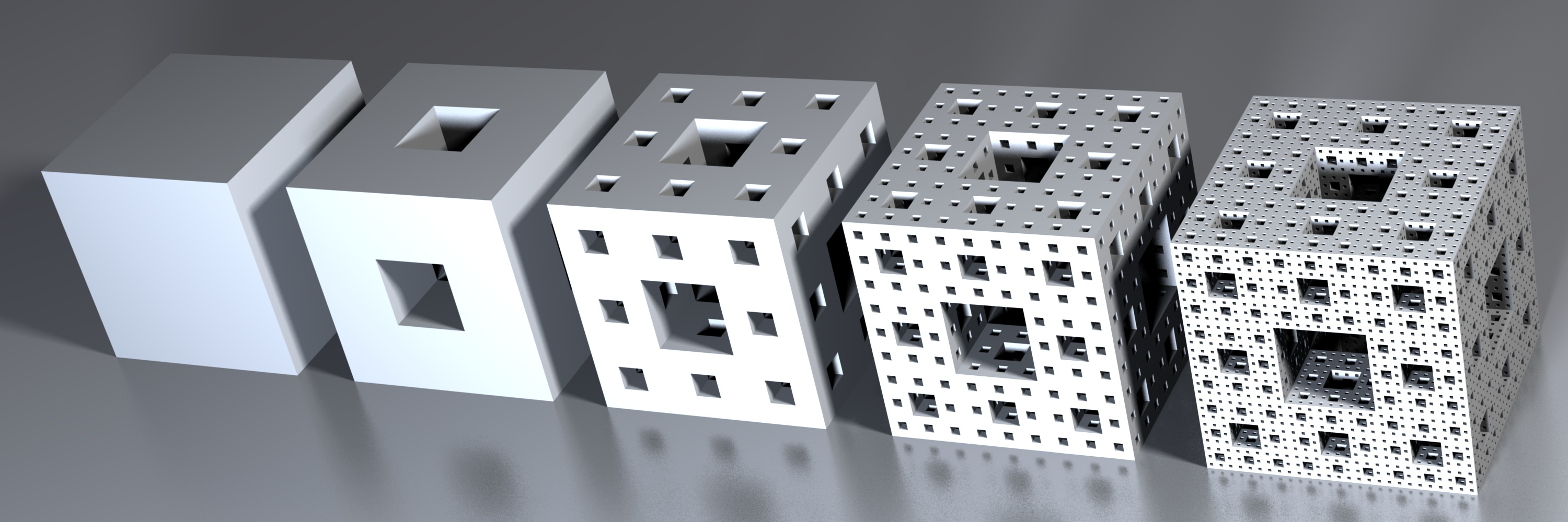 Development row from the Menger Sponge.